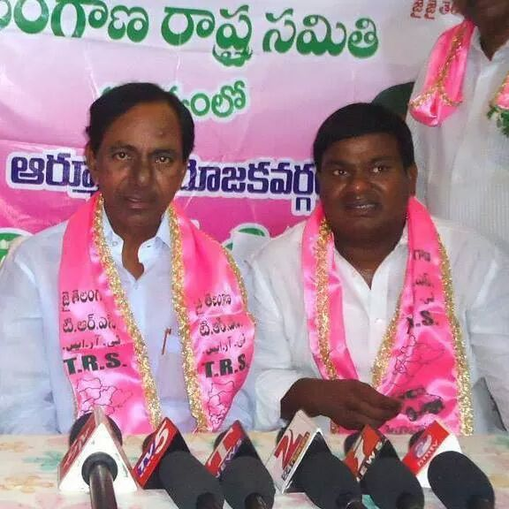 Kcr announced